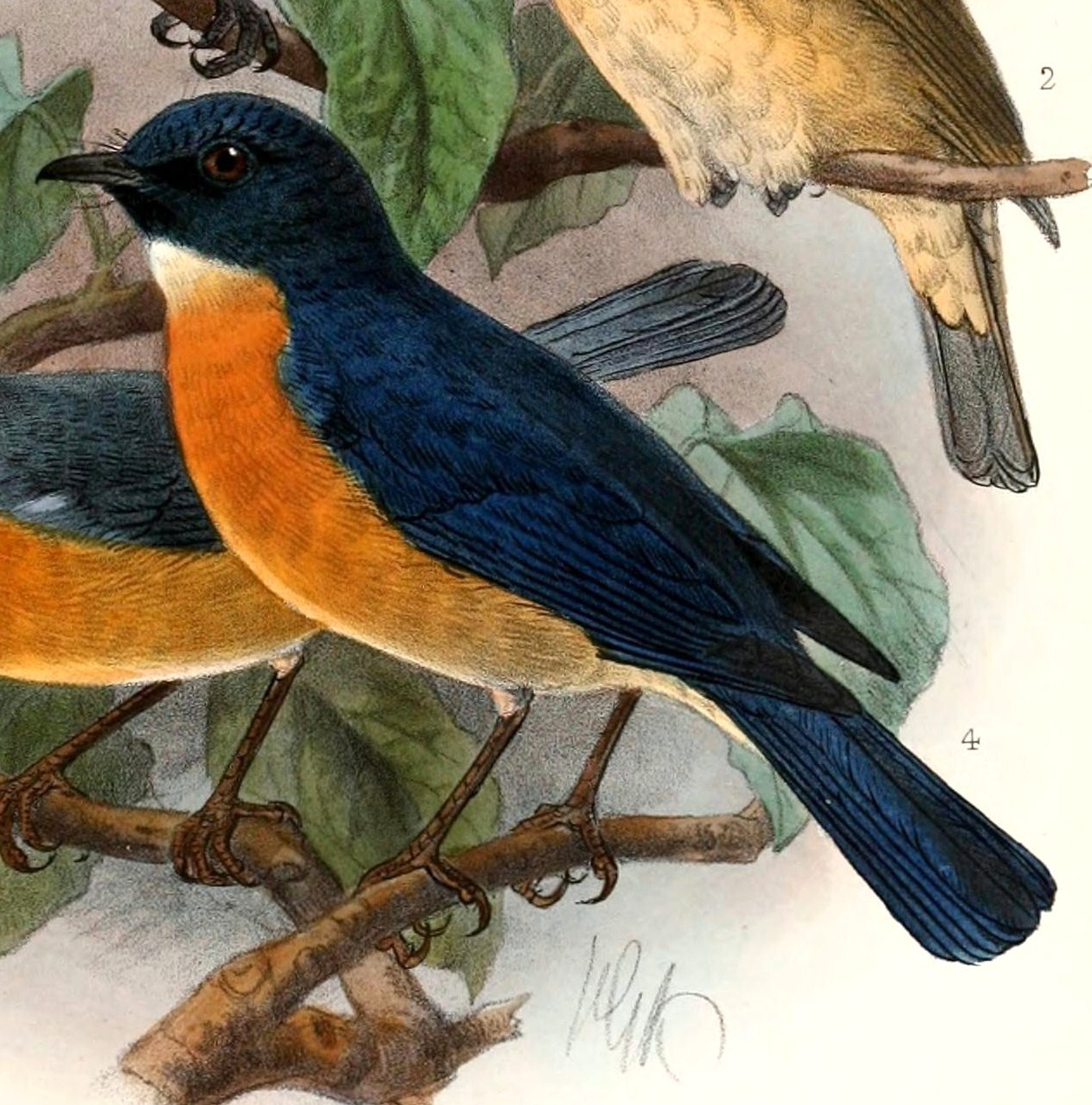 « Siphia banyumas rufigastra » = Cyornis rufigastra (Mangrove Blue Flycatcher)